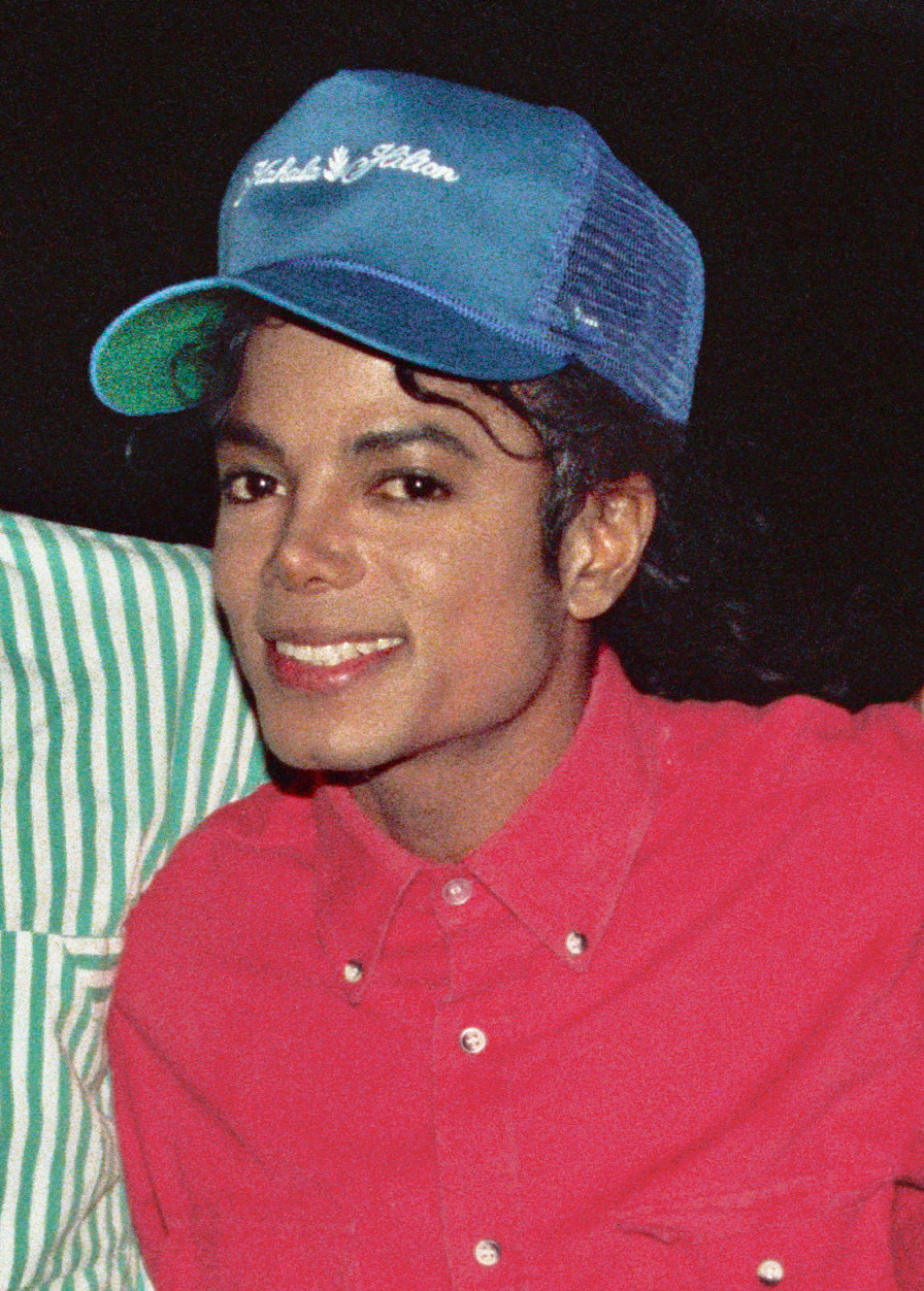 Michael Jackson with two fans at the Kahala Hilton Hotel. Photograph by Alan Light, early February 1988